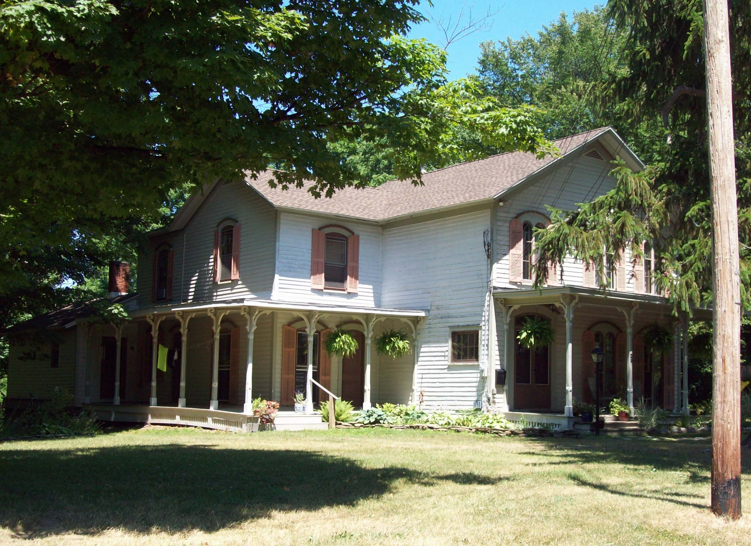 The Henry Dwight Thompson House at Westfield in Chautauqua County, in far western New York state.